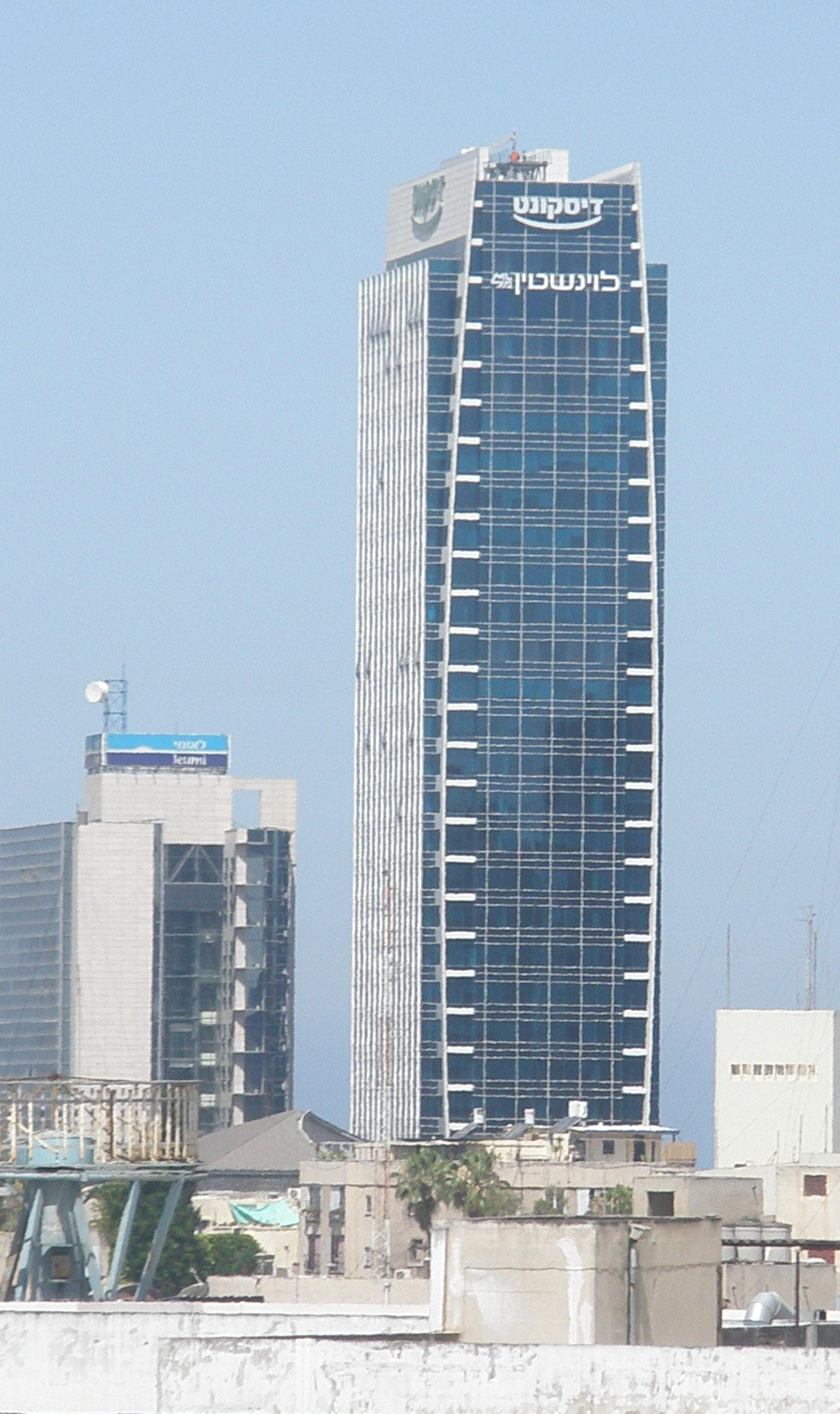 Israel Discount Bank central mangement building, Tel Aviv